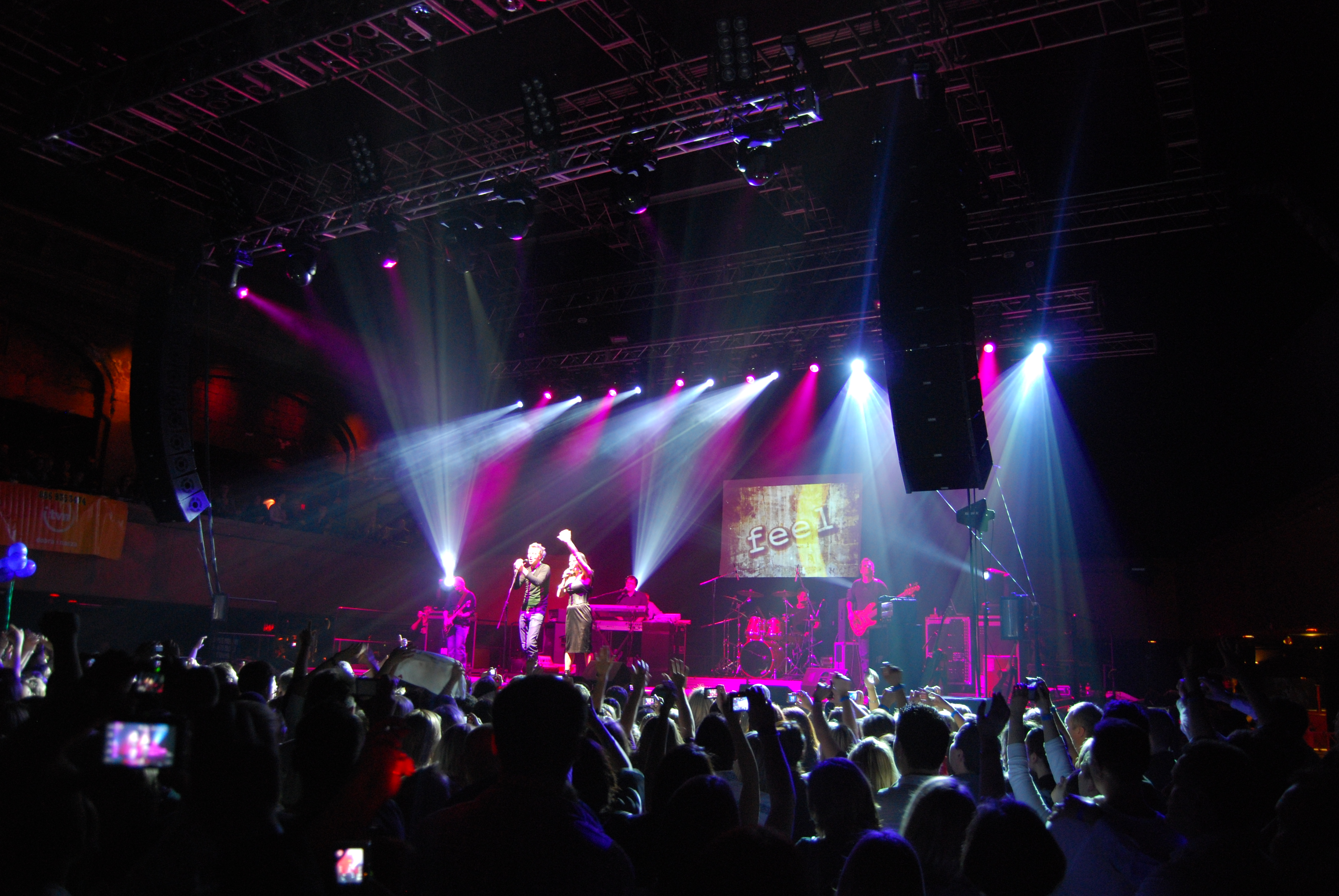 Feel concert at Roseland Ballroom, NYC, 2009-02-08.